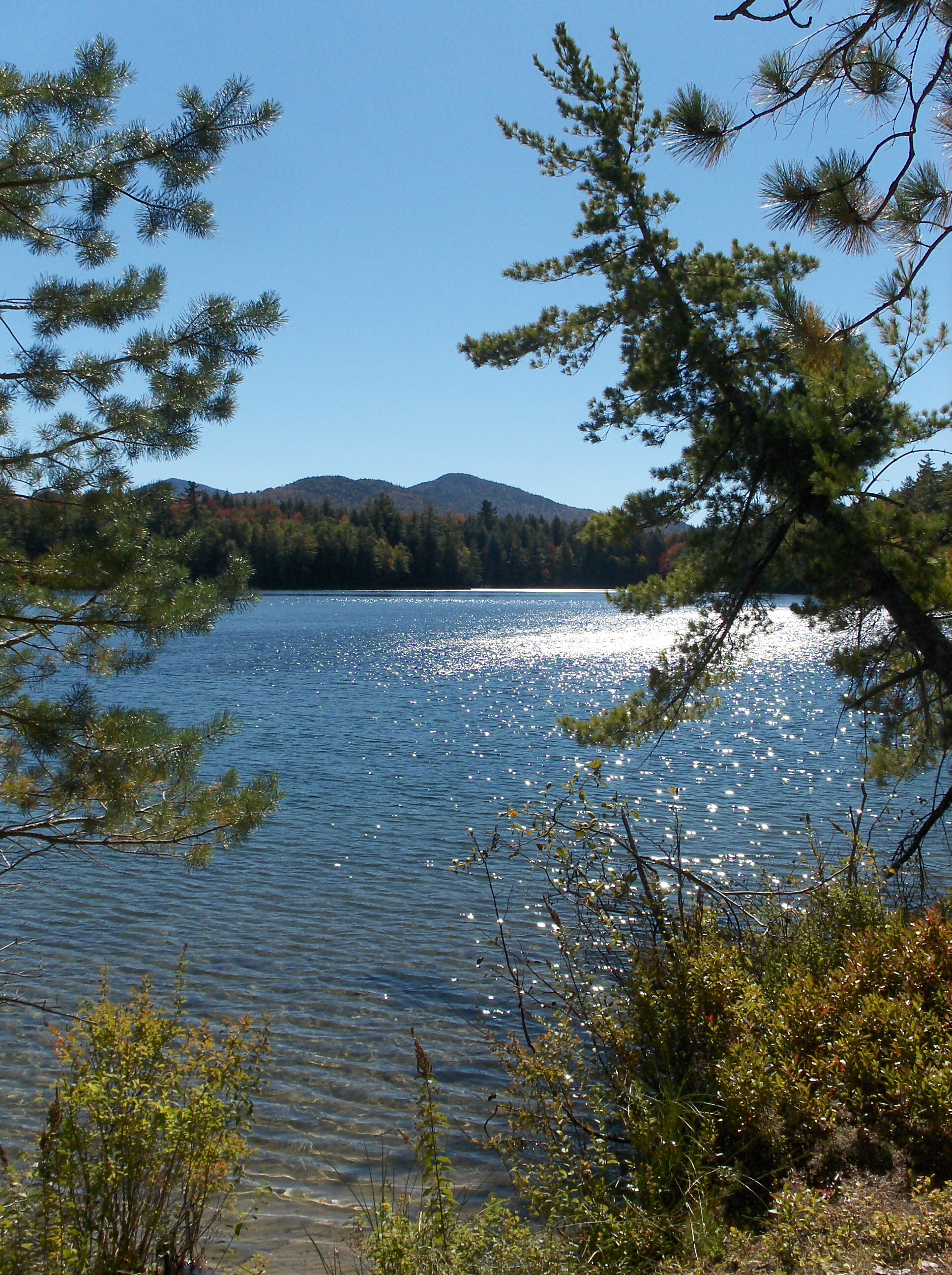 Pine Pond with part of the Sawtooth range showing